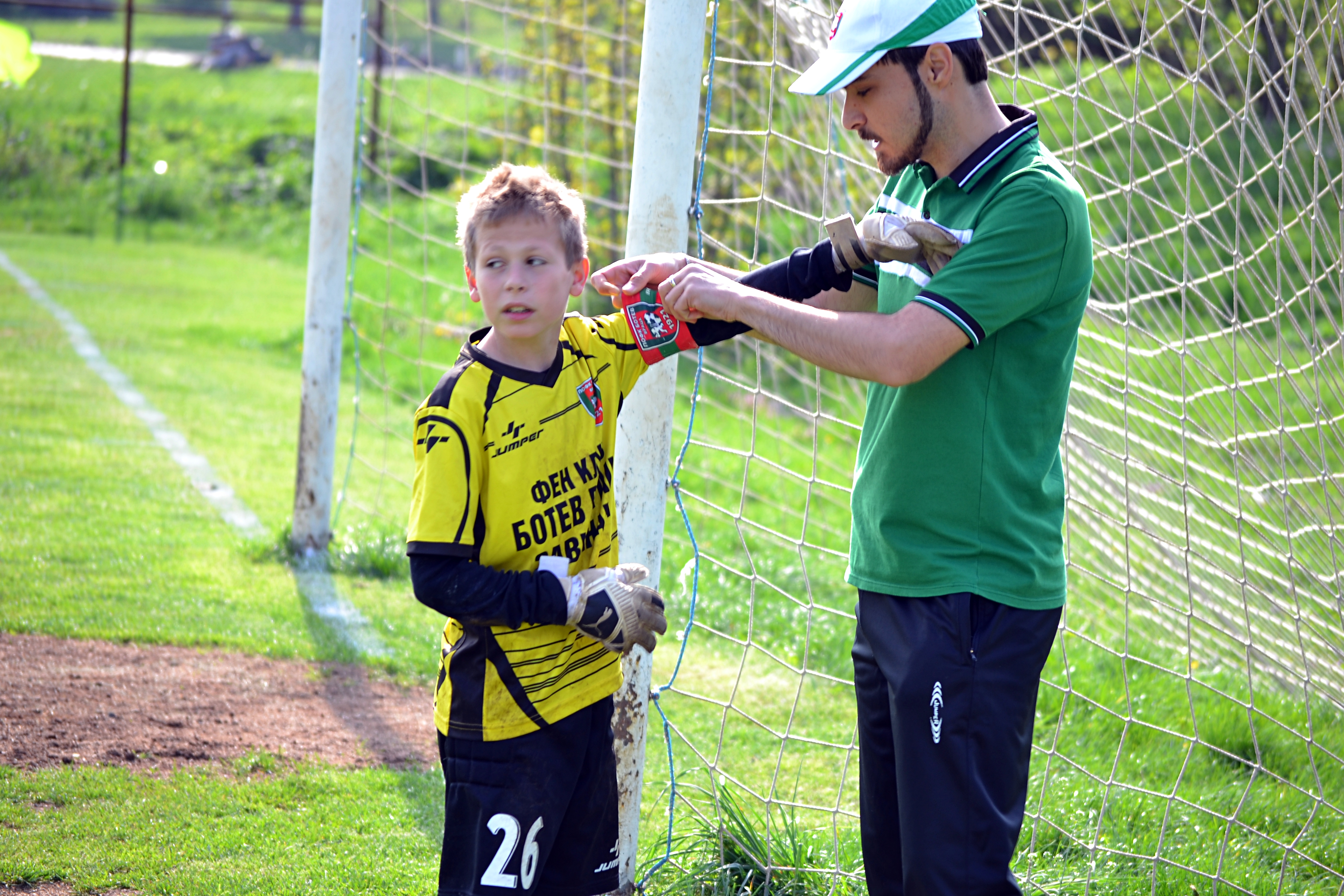 A photo of Aleksandar Alekov with a child from the Botev Vratsa Football Academy.